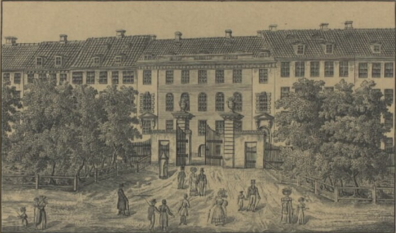 Rntrance to Rosenborg Gardens towards Kronprinsessegade in Copenhagen, Denmark